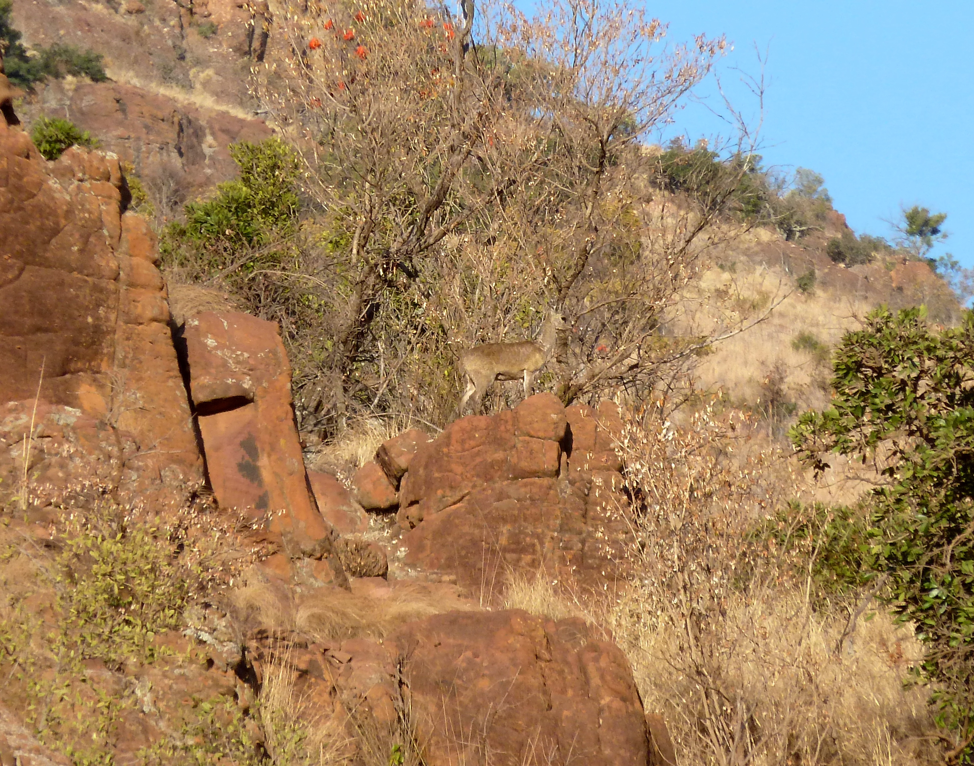 Klipspringer on the verge of Kroonvlei Wilderness Estate, Waterberg, South Africa